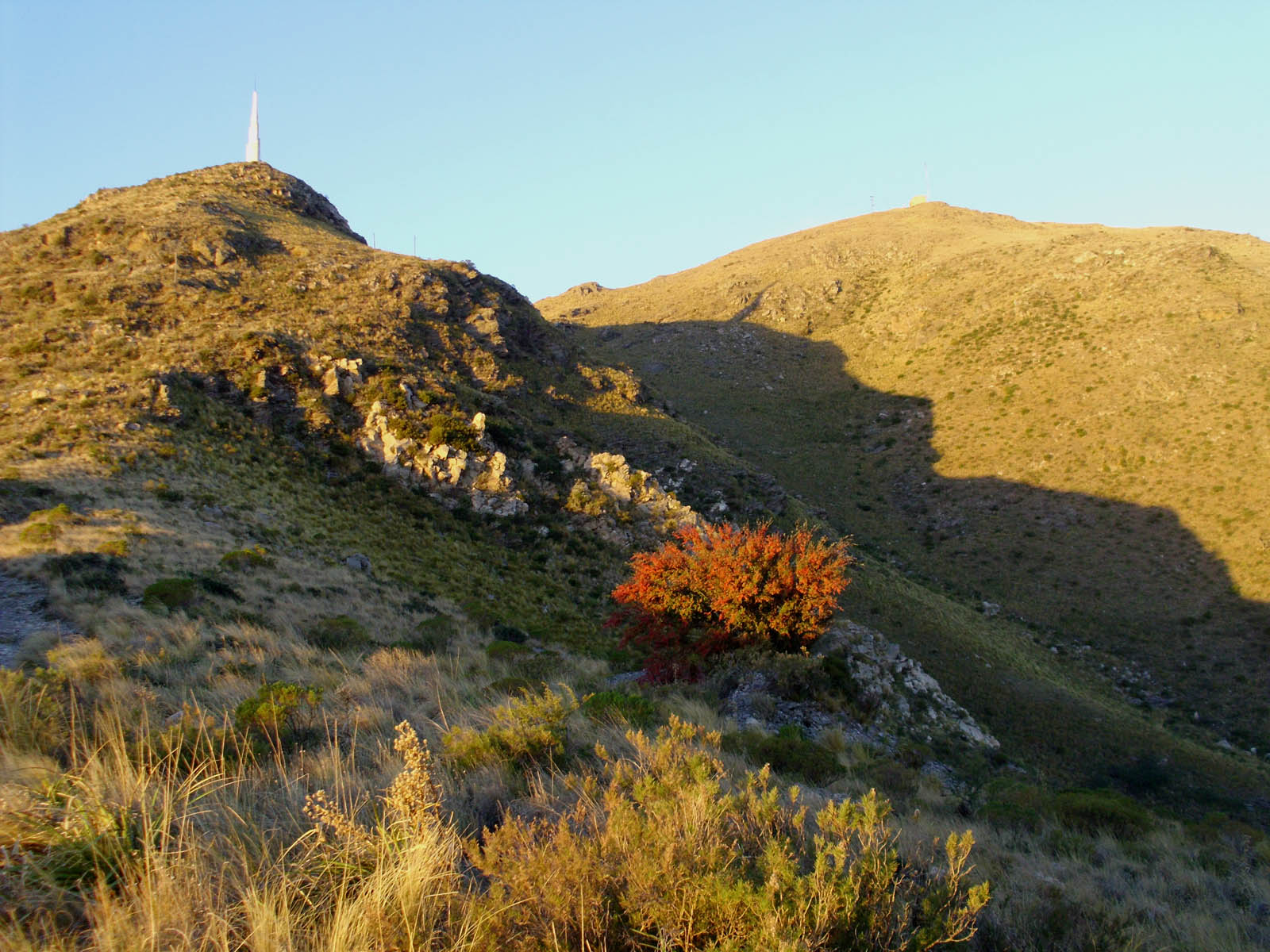 Mountain with the monument "El Mástil", on its top. Los Cocos, Córdoba, Argentina.